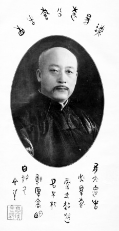 Yuan Jinkai (1870－1947)